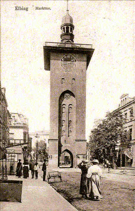 The Market Gate in Elbląg (then Elbing, Prussia, German Empire) in 1900.